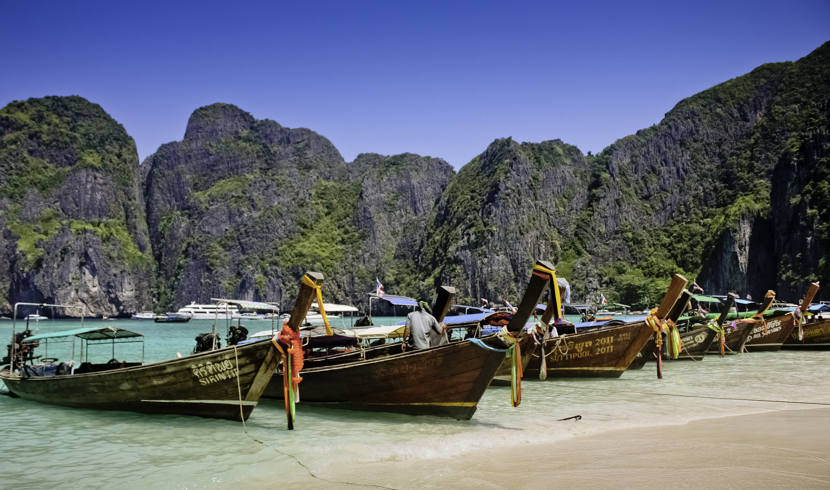 Longtail Boat At Maya Bay, Krabi, Thailand